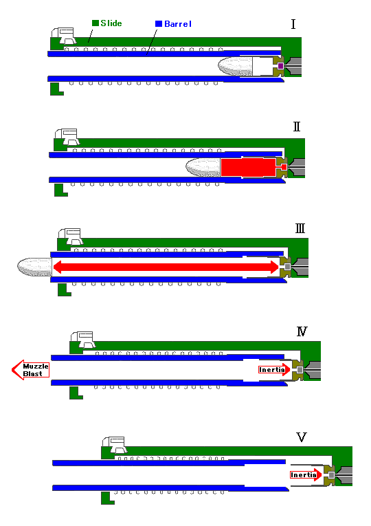 A schematic of the simple blowback.